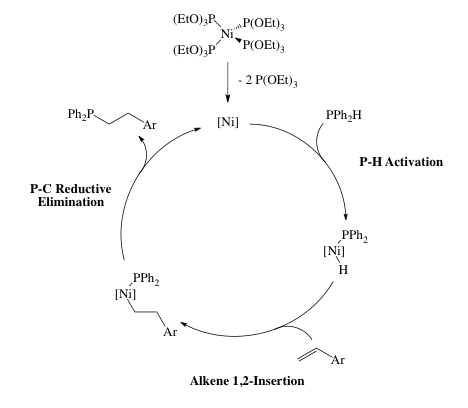 used for hydrophosphination